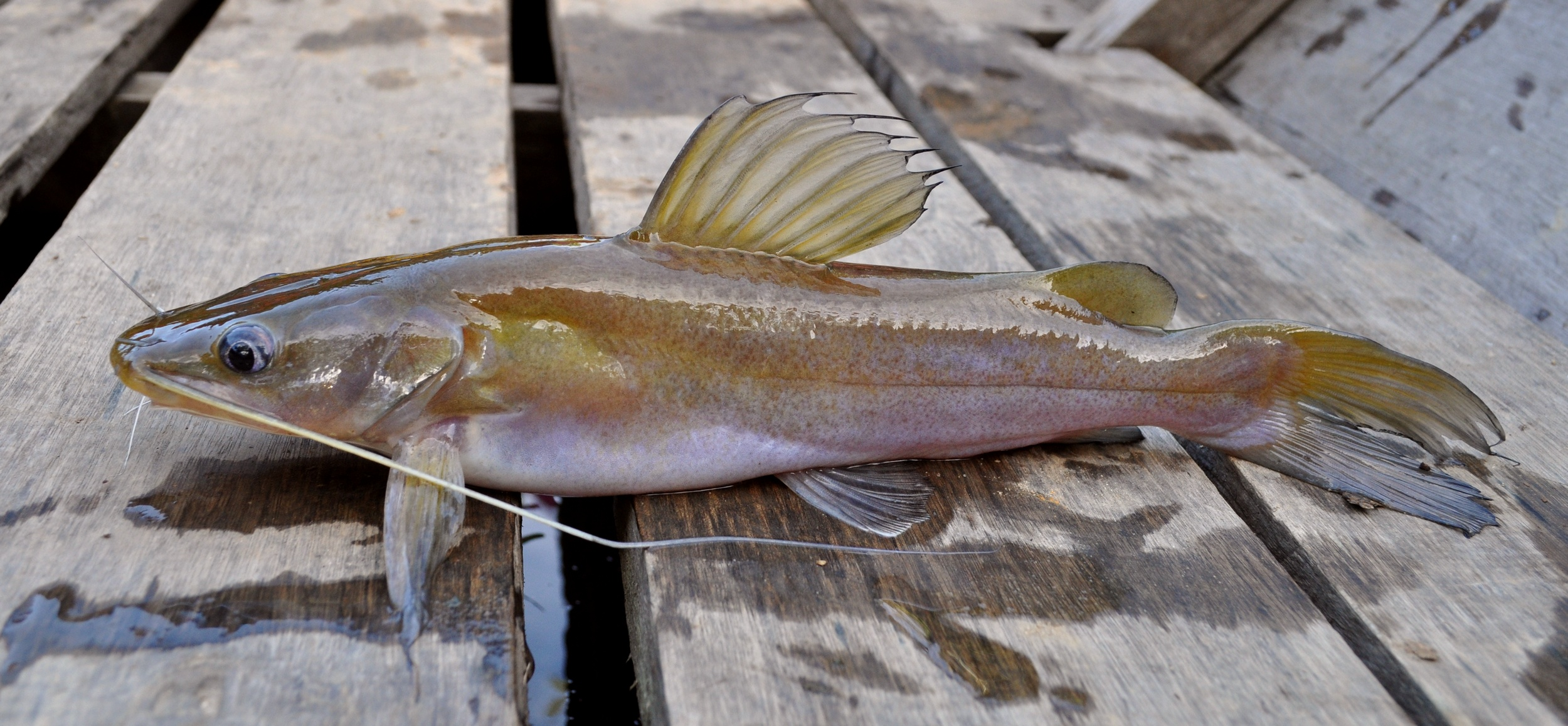 Hemibagrus capitulum, 215mm SL. From Sambas, West Kalimantan, Indonesia.